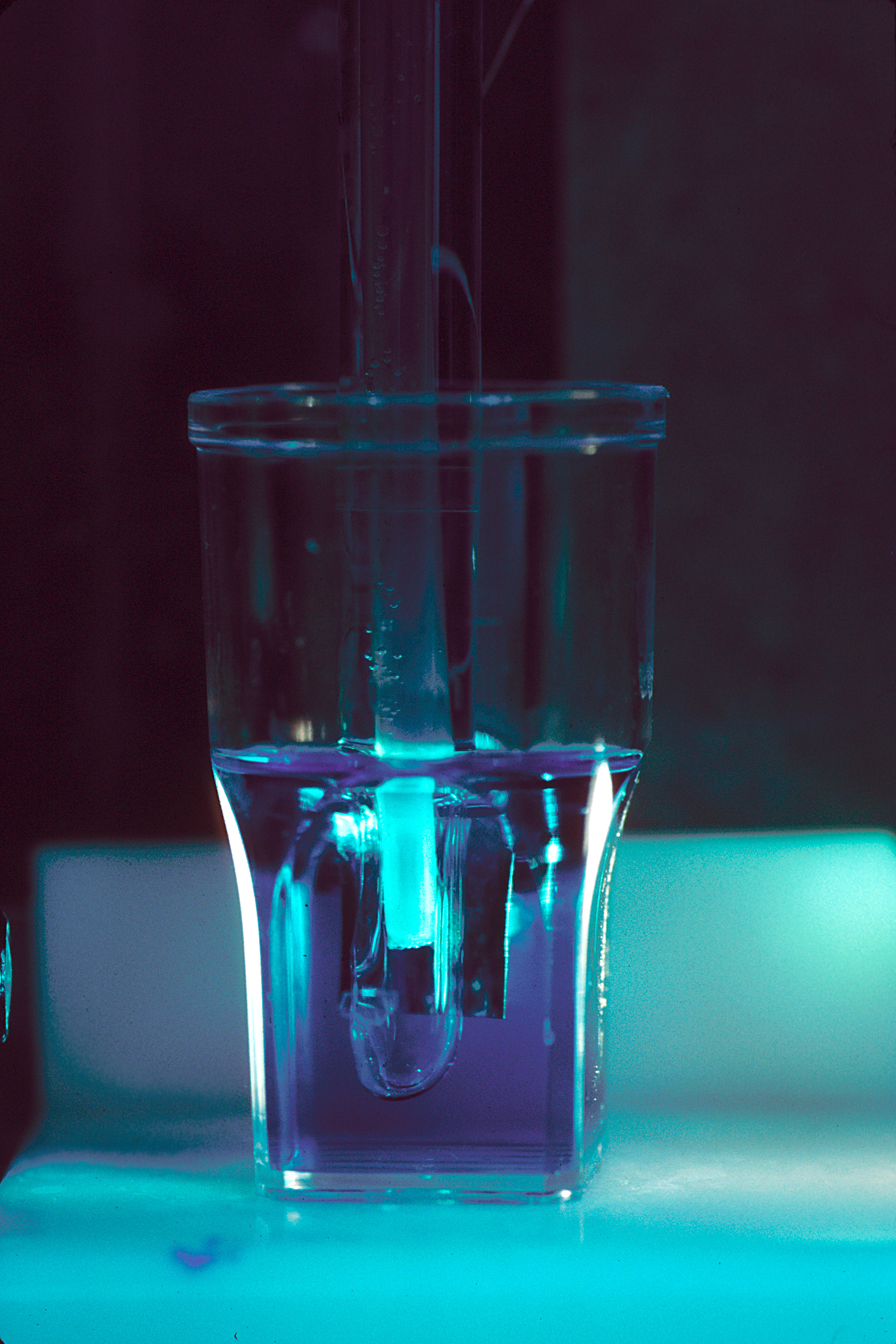 Title Coulter Counter Description The tip of a Coulter Counter, used to count cells, is submerged in a buffer solution in a glass. Topics/Categories Science and Technology -- Laboratory Techniques/Equipment Type Color, Photo Source National Cancer Institute